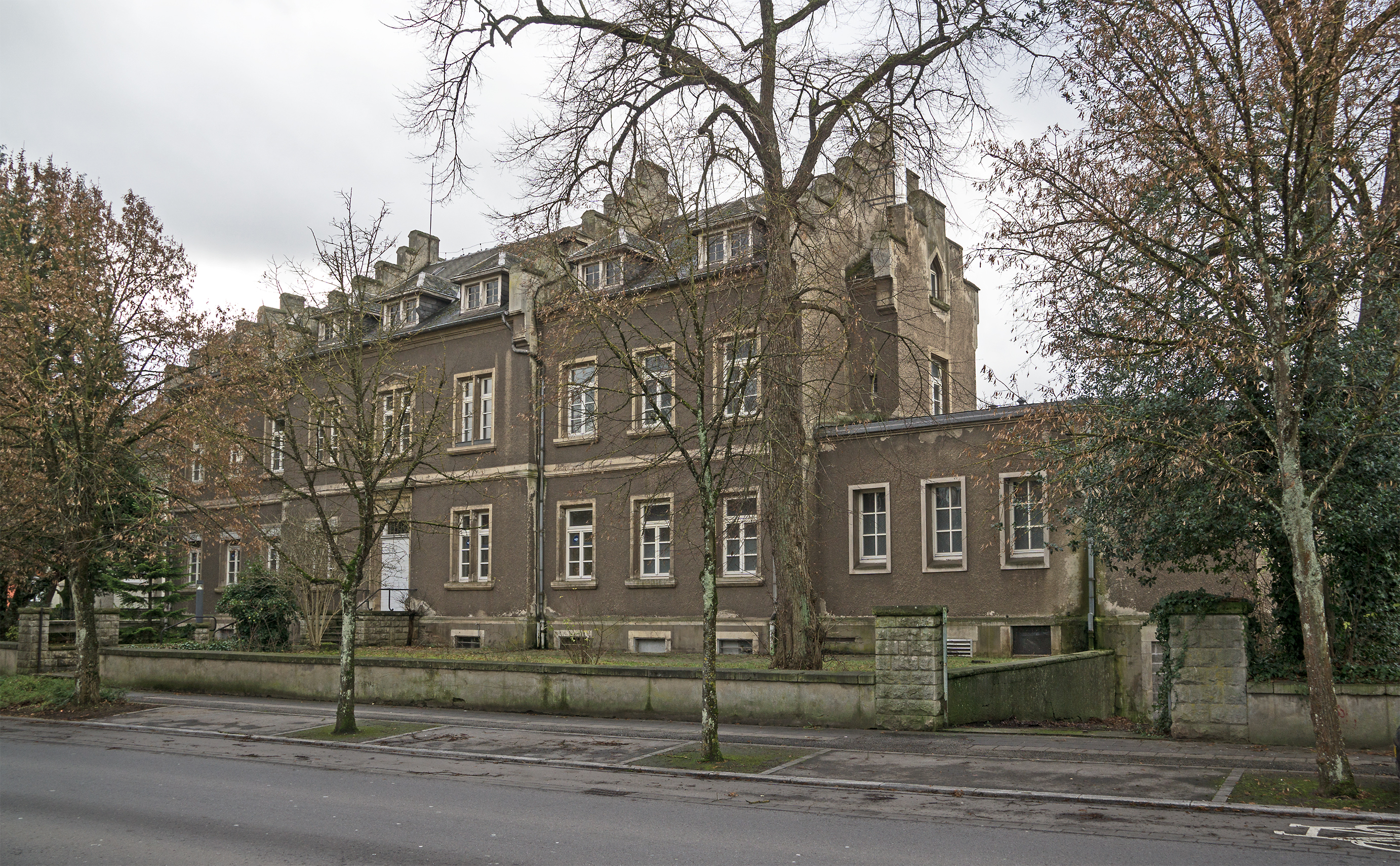 Former hospital of Esch-sur-Alzette